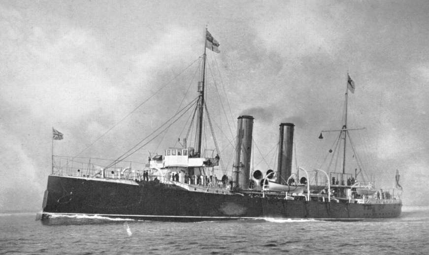 Photograph of British Apollo class cruiser HMS Retribution.